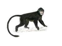 Drawing of Rhinopithecus strykeri.